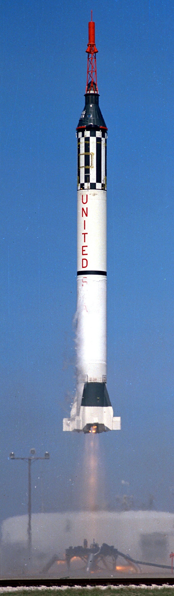 Mercury-Redstone 2 (MR-2) launch with chimpanzee Ham aboard. Monkeys had been flown into space before, but Ham was the first higher primate to test a spacecraft.